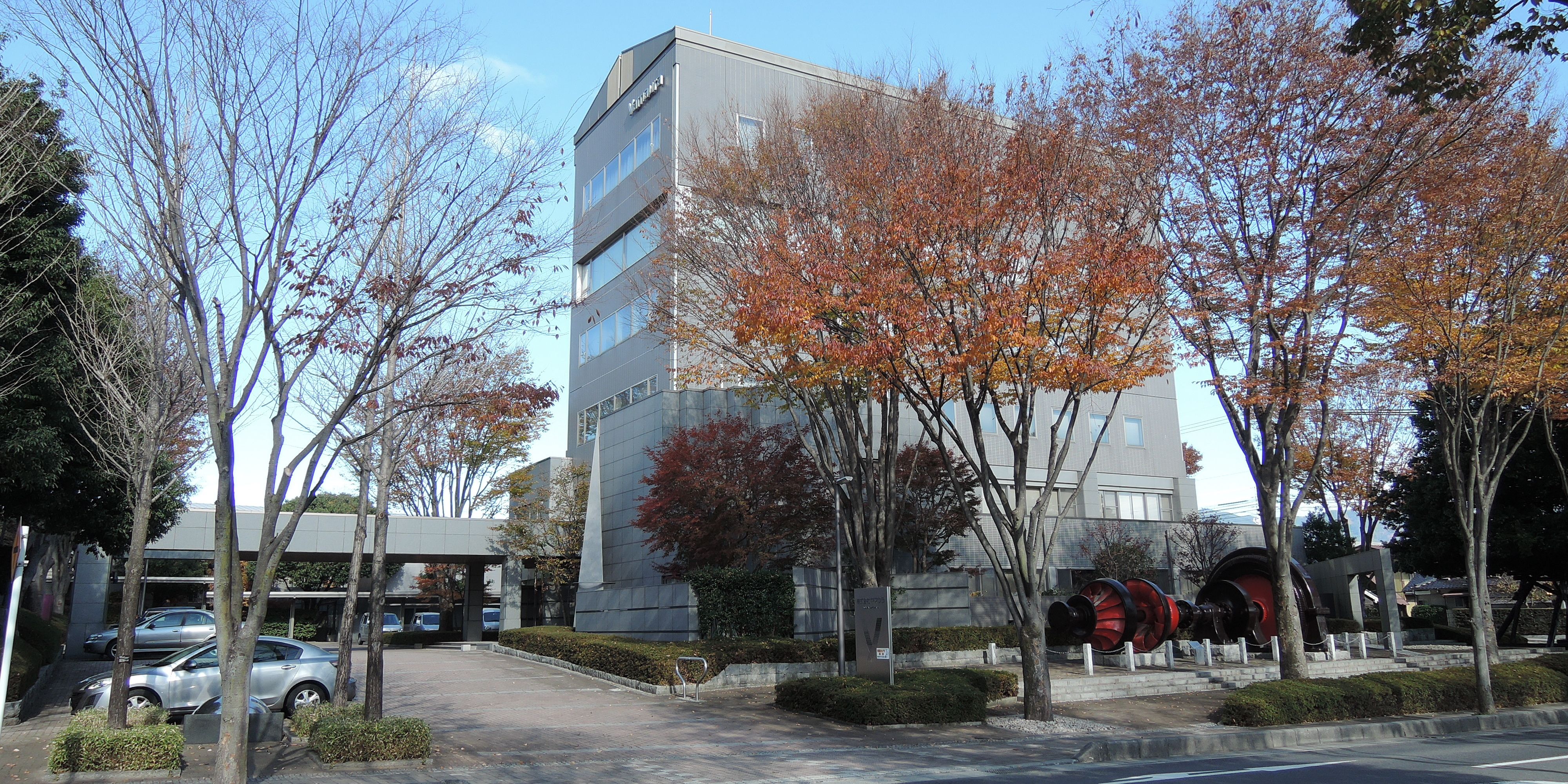 Headquarters of Yamaura Corporation,Nagano prefecture,Japan